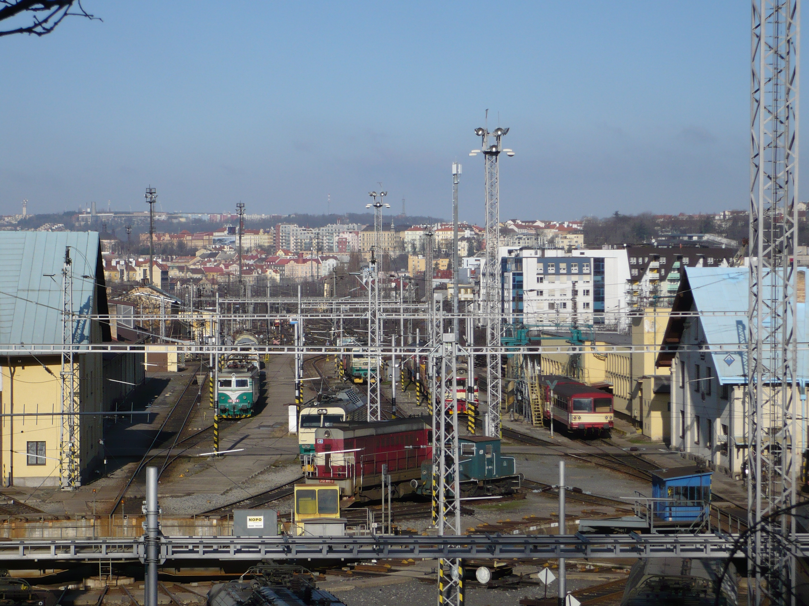 Turntables, Prague-Vršovice